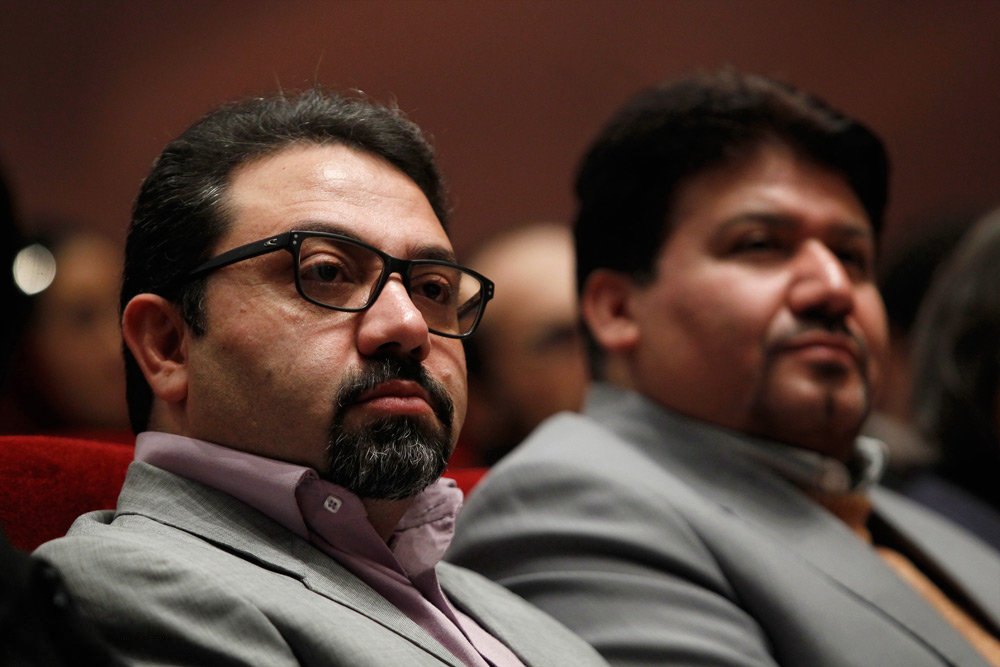 Commemoration Late Gurgen Movsessian (25 November 2014)